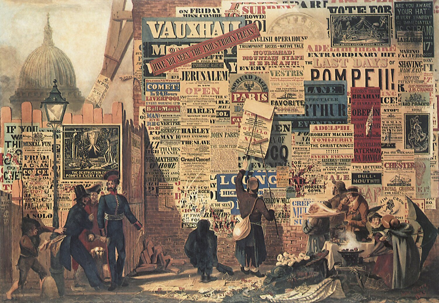 Watercolor by John Orlando Parry, "A London Street Scene" 1835, in the Alfred Dunhill Collection.